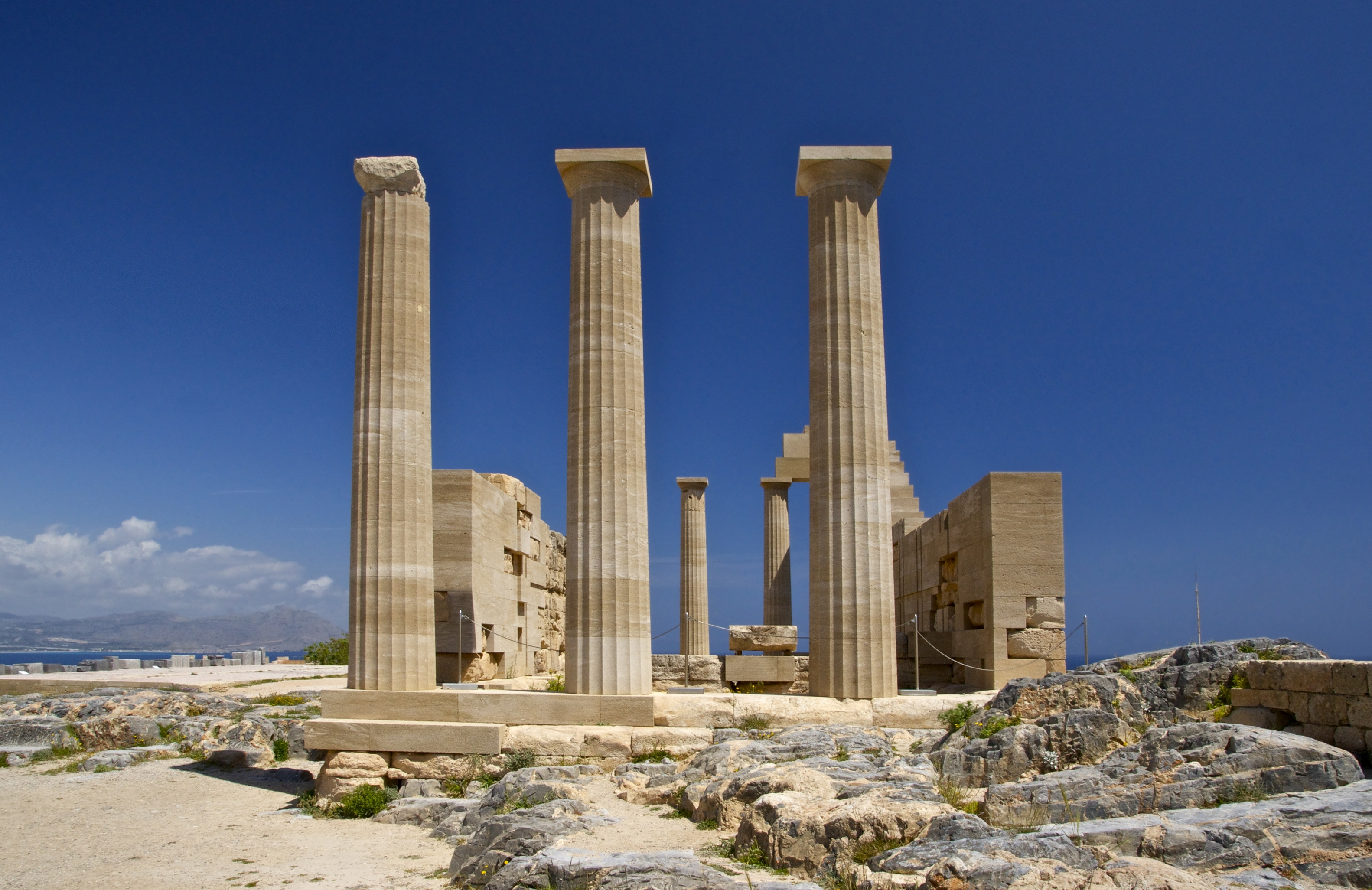 Temple of Athena Lindia, Acropolis of Lindos, island of Rhodes, Greece.